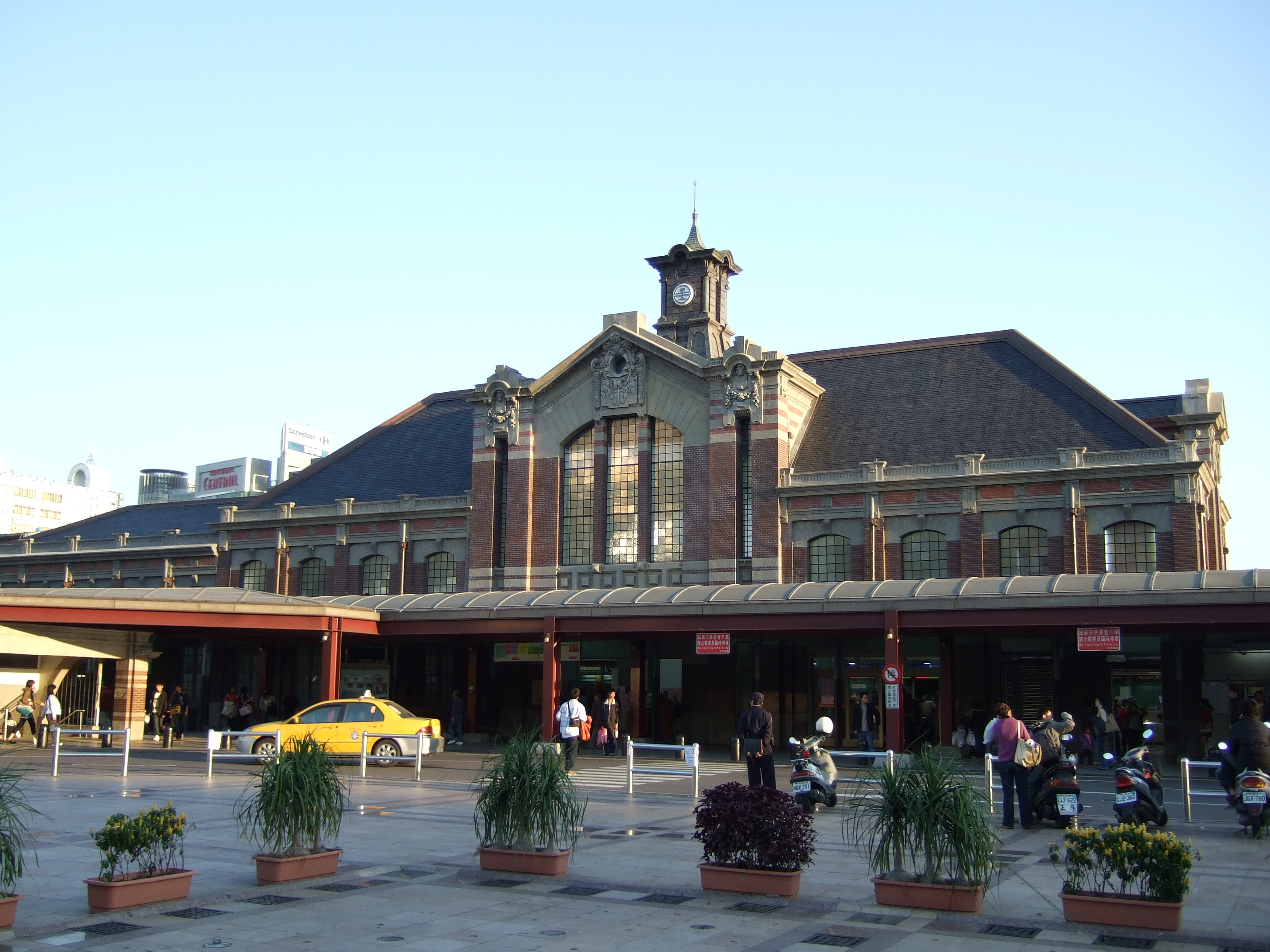 TRA Taichung Station